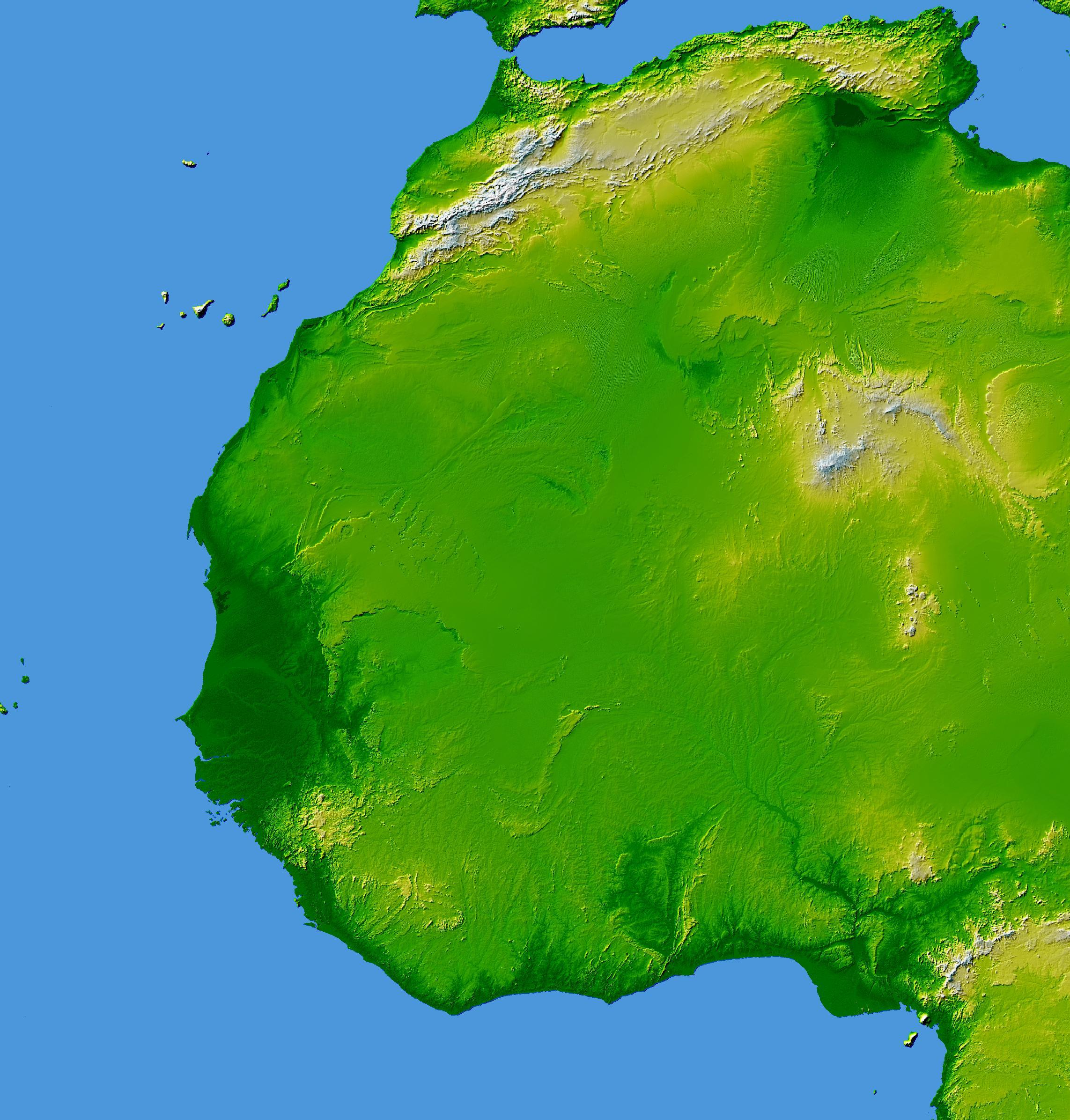 West Africa topography